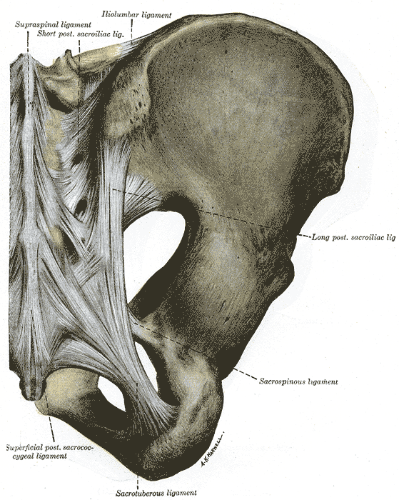 Posterior articulations of pelvis (Quain)